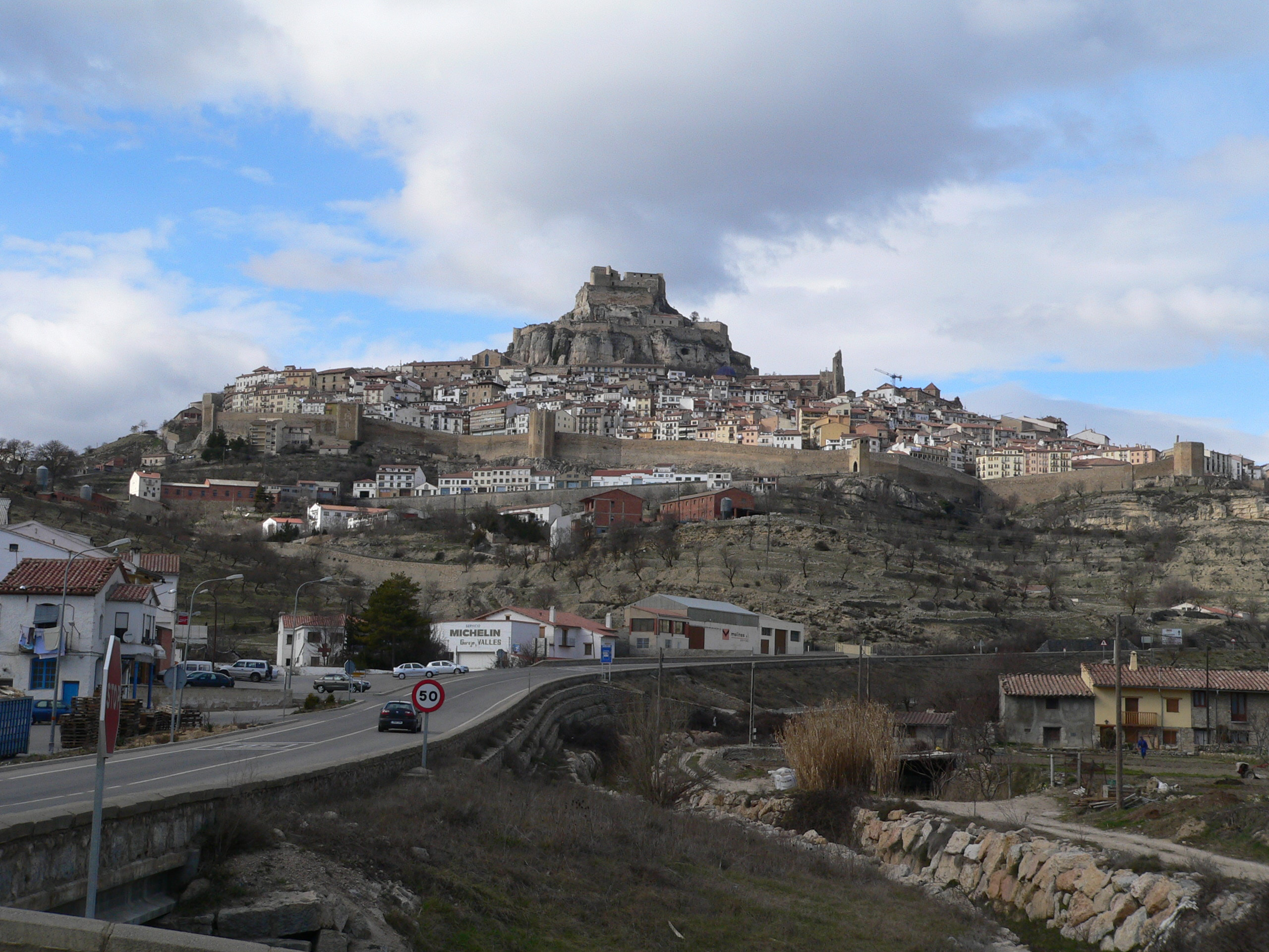 Panoramic view of Morella, España